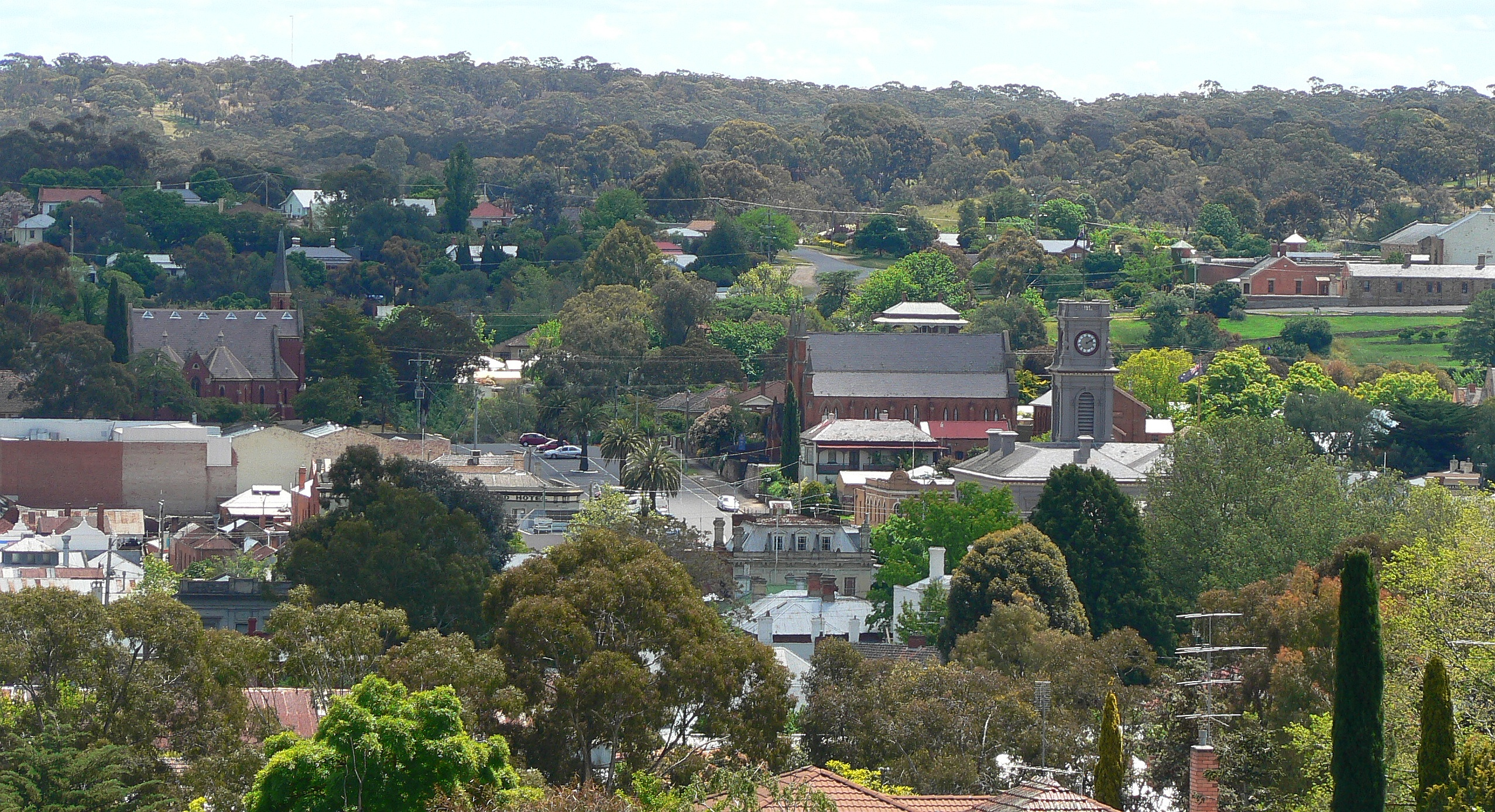 View of Castlemaine from Burke and Wills Memorial Lookout